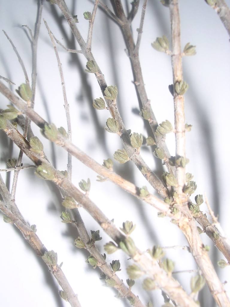 thymus capitatus branch and leaves